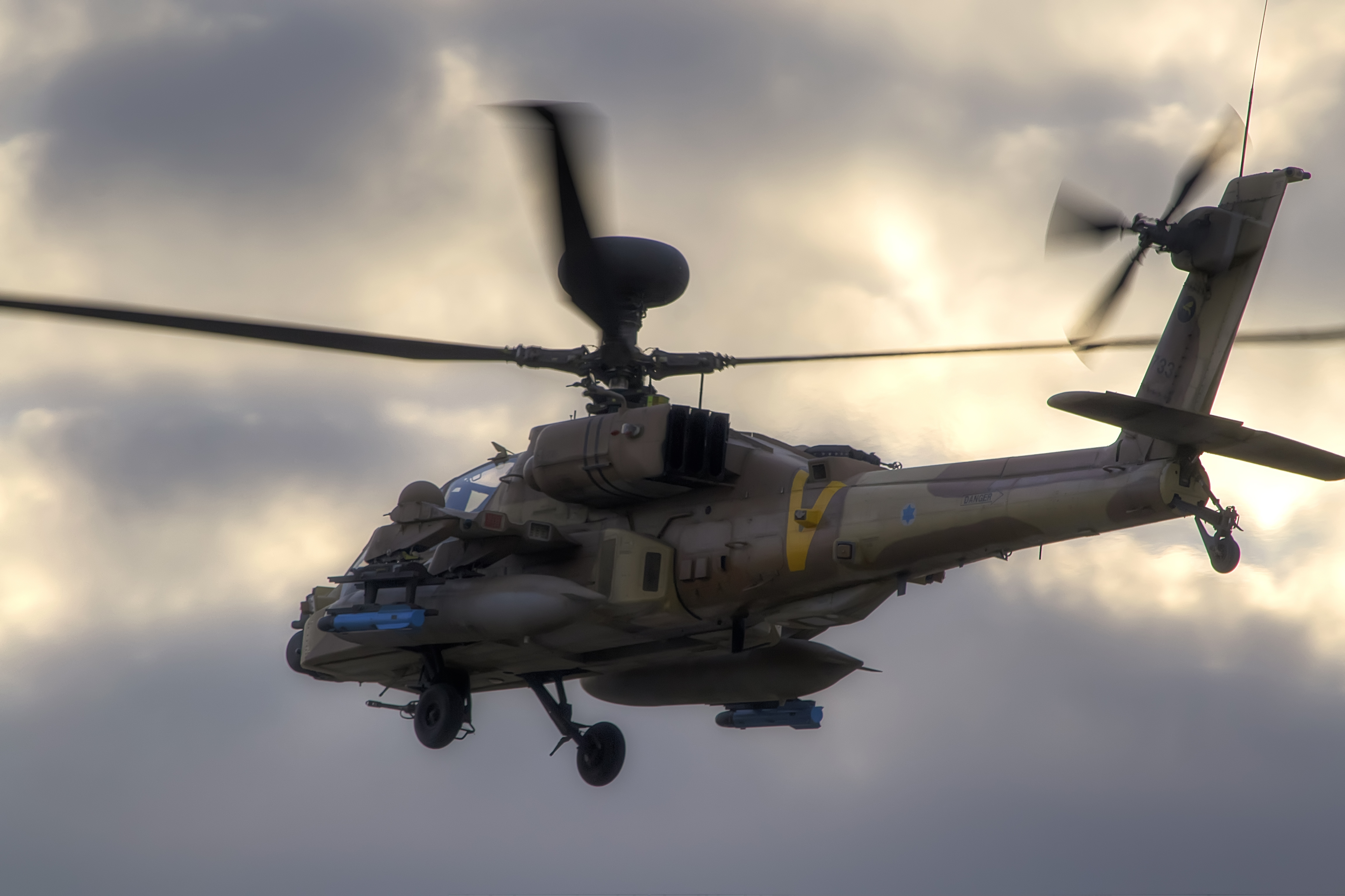 AH-64D "Saraf" on Graduates of Aviation Course 165 of IAF